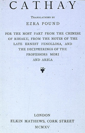 Title page from Ezra Pound, "Cathay", London, Elkin Mathews, 1915. Based on the translations of Ernest Fenollosa. Copyright has expired.